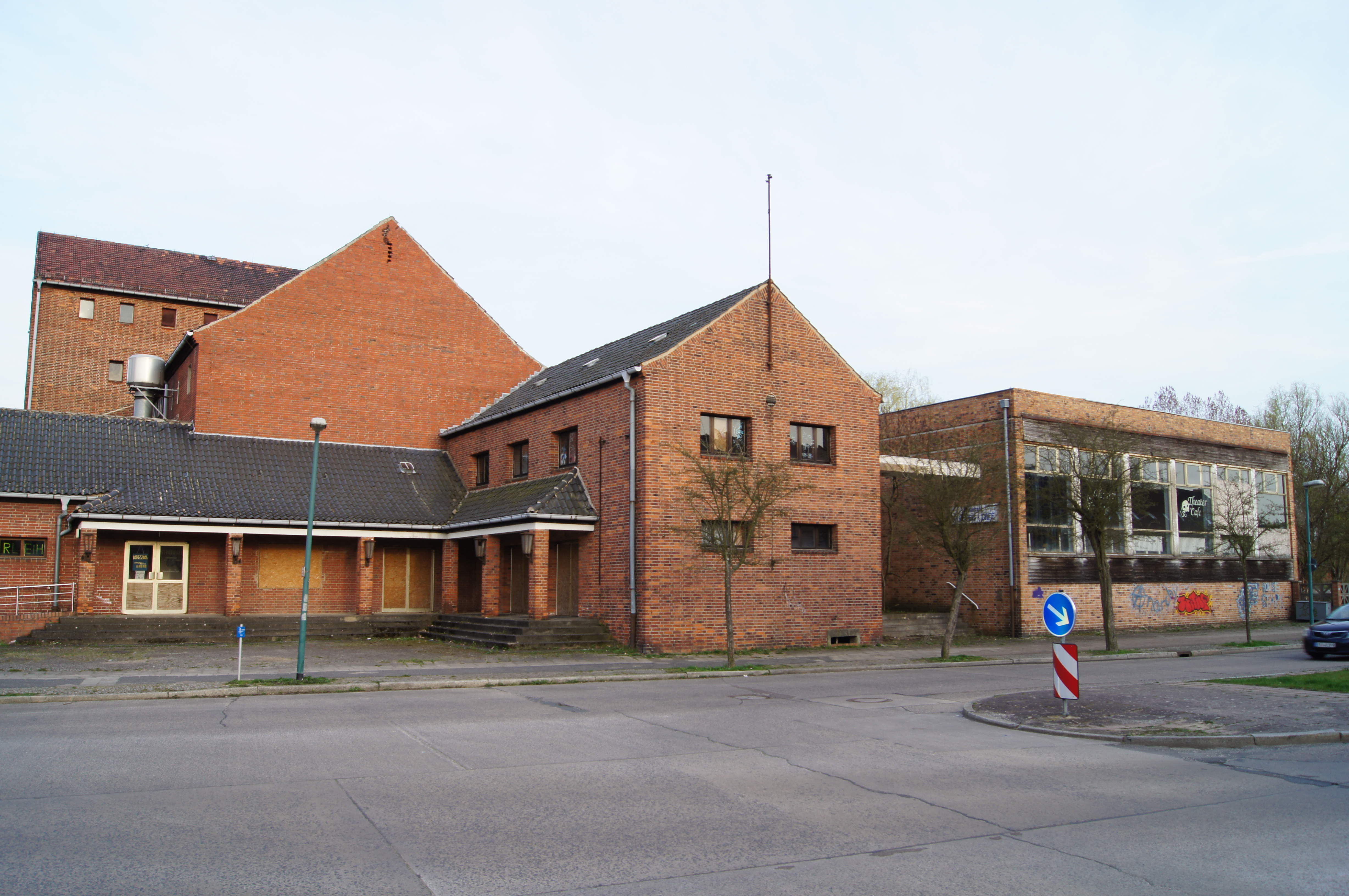 Musikheim Frankfurt (Oder), Brandenburg, Germany